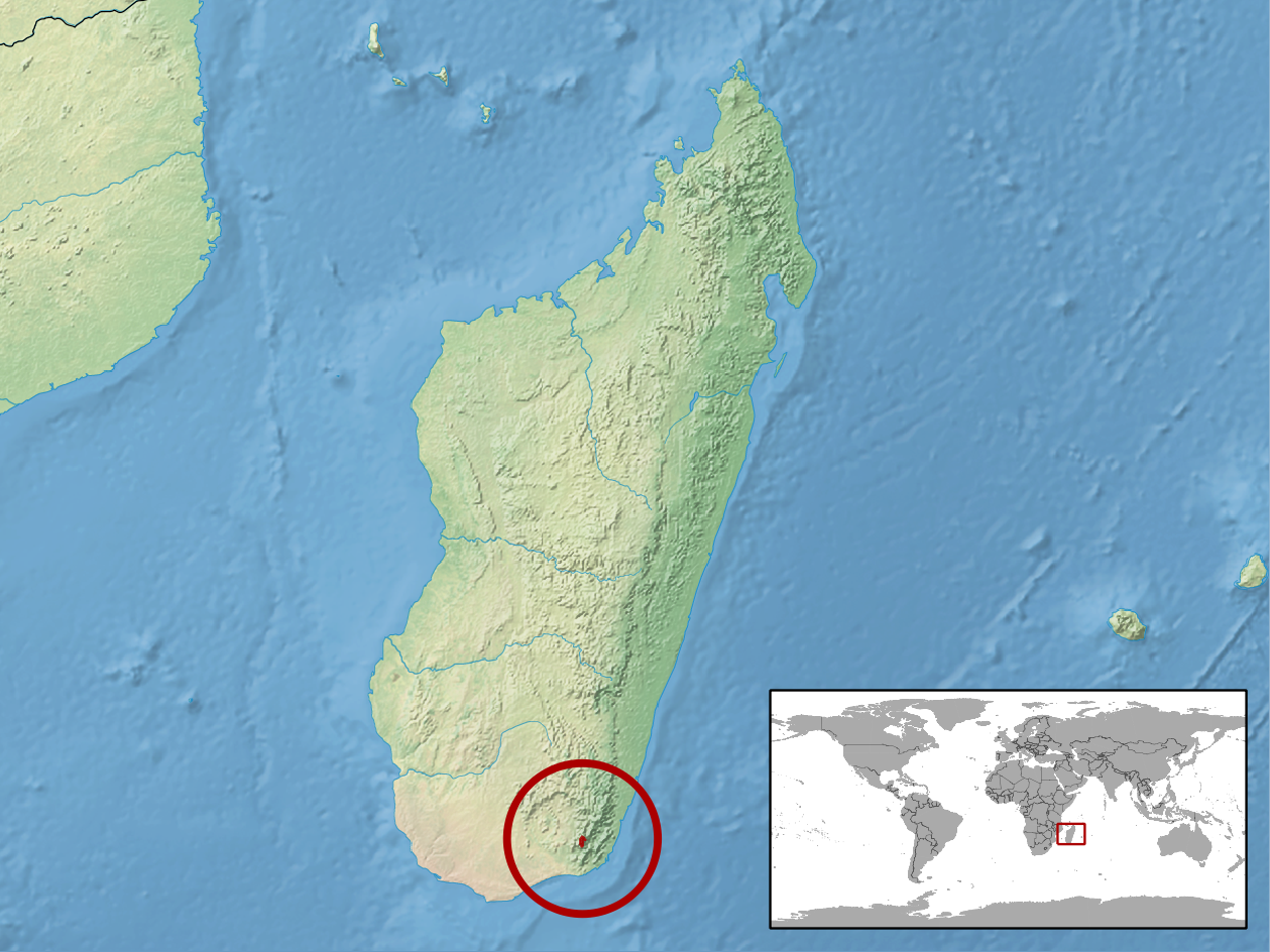 geographic distribution of Calumma capuroni